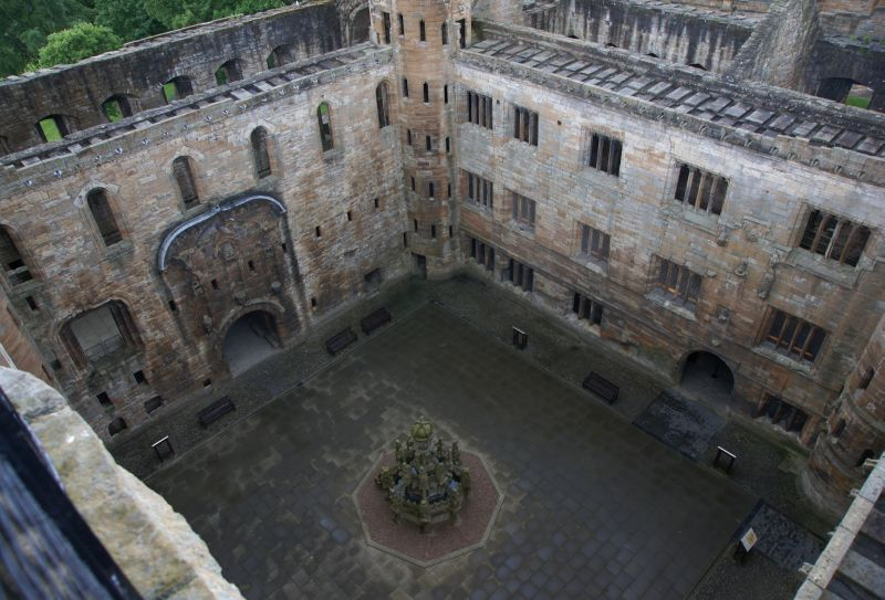 Linlithgow Palace, Scotland